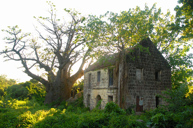 Attribution: Photo by Aaron Vos Subject: Photograph of Baobab Tree and entrance cottage at Montravers Estate, Nevis, West Indies. Date: 10 April 2007. Original digital photograph, uploaded by Pia 21:10, 9 May 2007 (UTC)